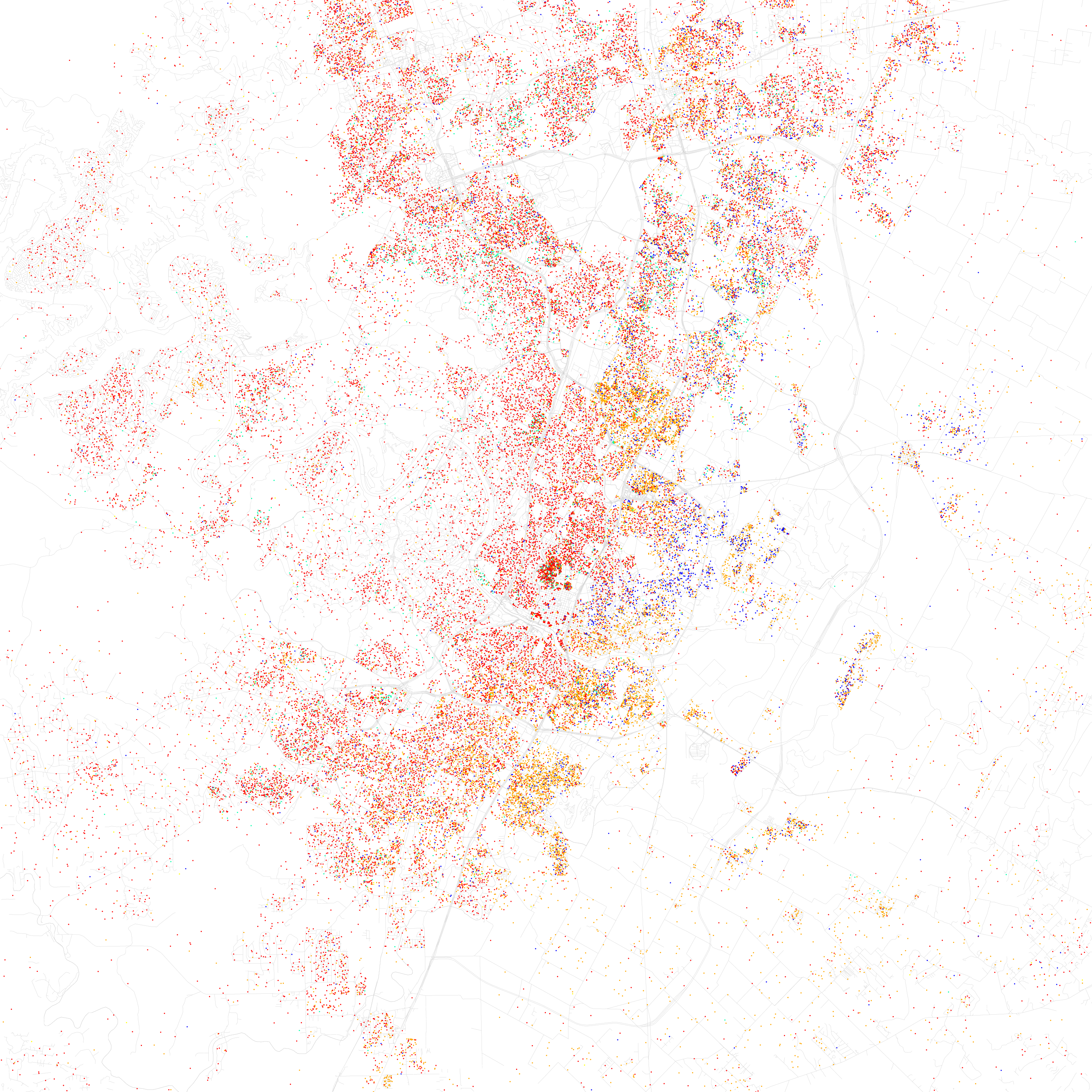 Maps of racial and ethnic divisions in US cities, inspired by Bill Rankin's map of Chicago, updated for Census 2010. Red is White, Blue is Black, Green is Asian, Orange is Hispanic, Yellow is Other, and each dot is 25 residents. Data from Census 2010. Base map © OpenStreetMap, CC-BY-SA